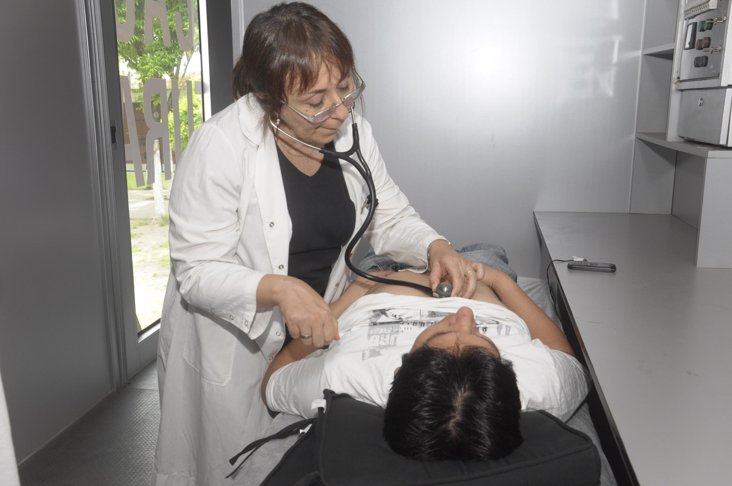 Auscultation of the anterior Thorax